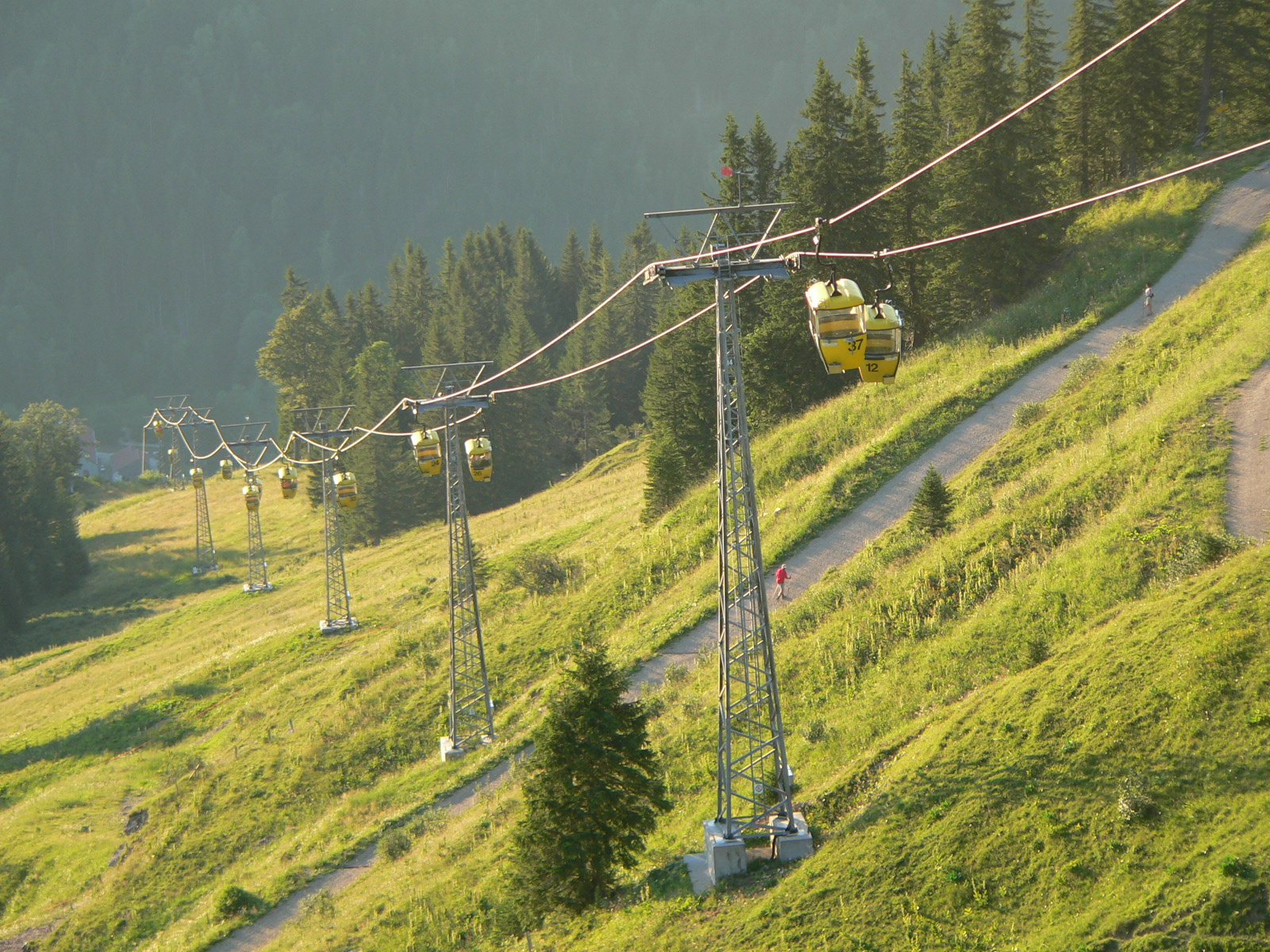 Hochgratbahn Oberstaufen, Germany